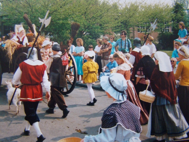 historic parade during 800 years Bredevoort, on the picture the arrest of the Lady of Dorth.